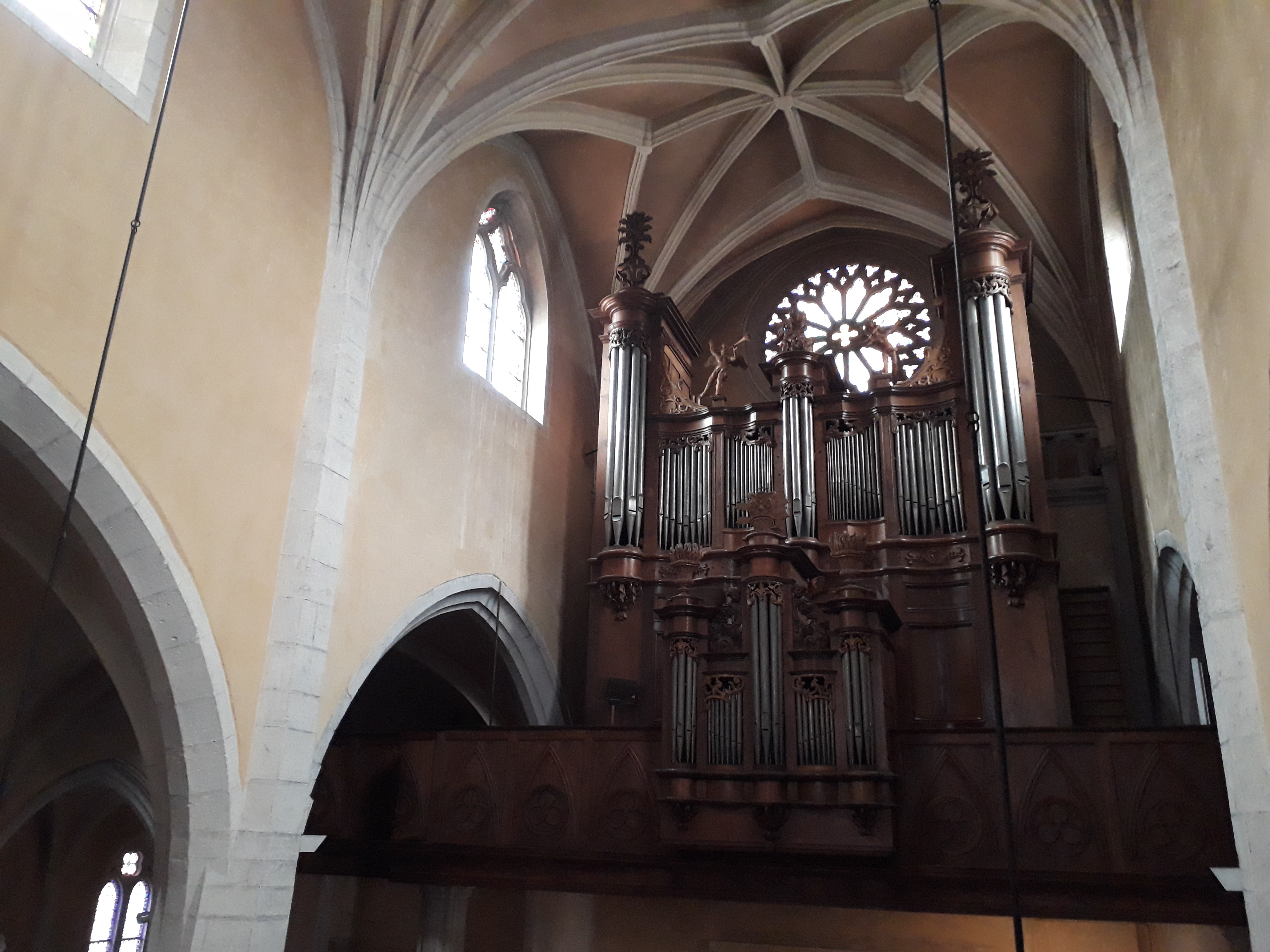 Organ of the basilica Notre-Dame of Gray, Haute-Saône, France.